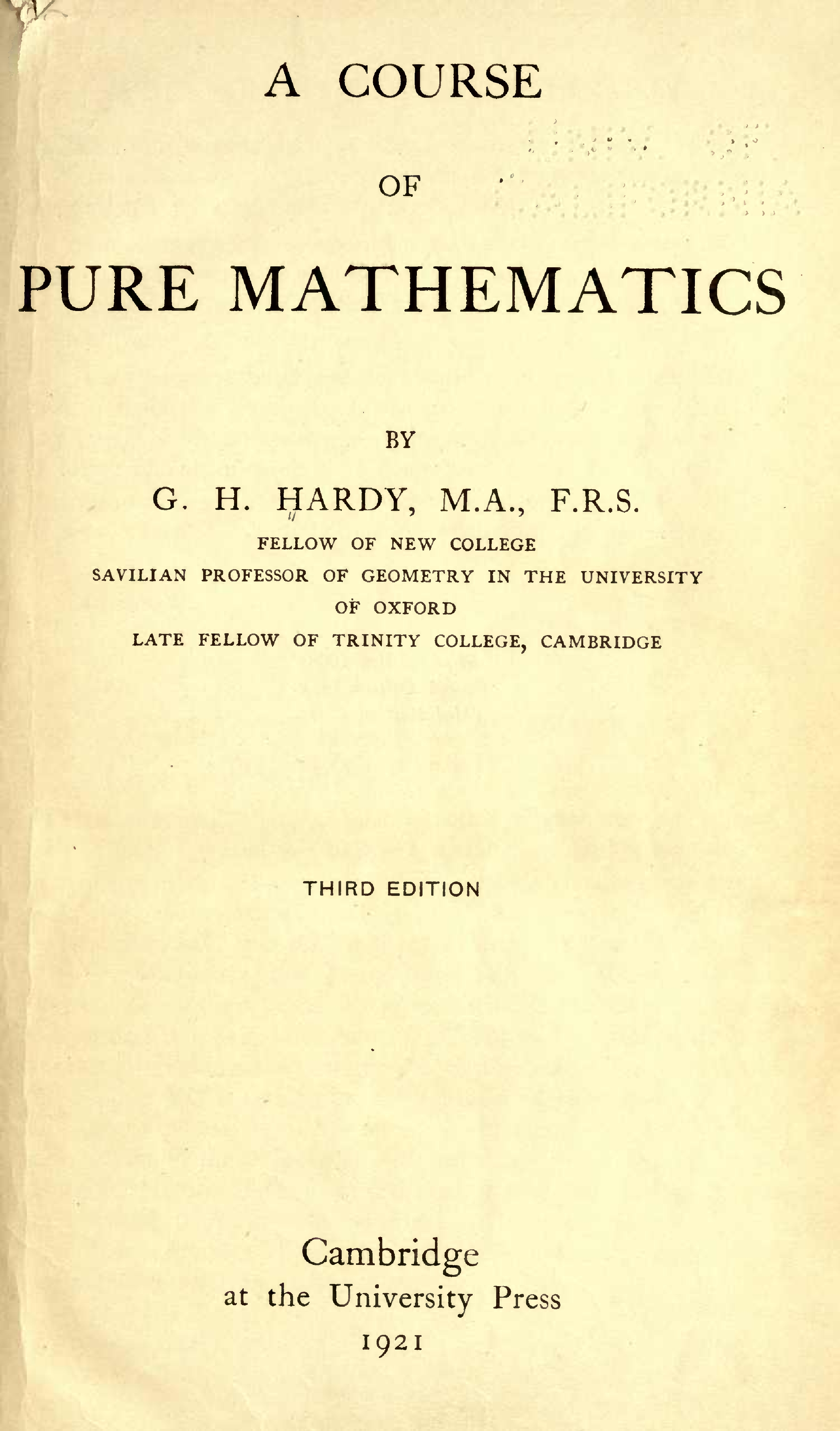 A course of pure mathematics by: Hardy, G. H. (Godfrey Harold), 1877-1947